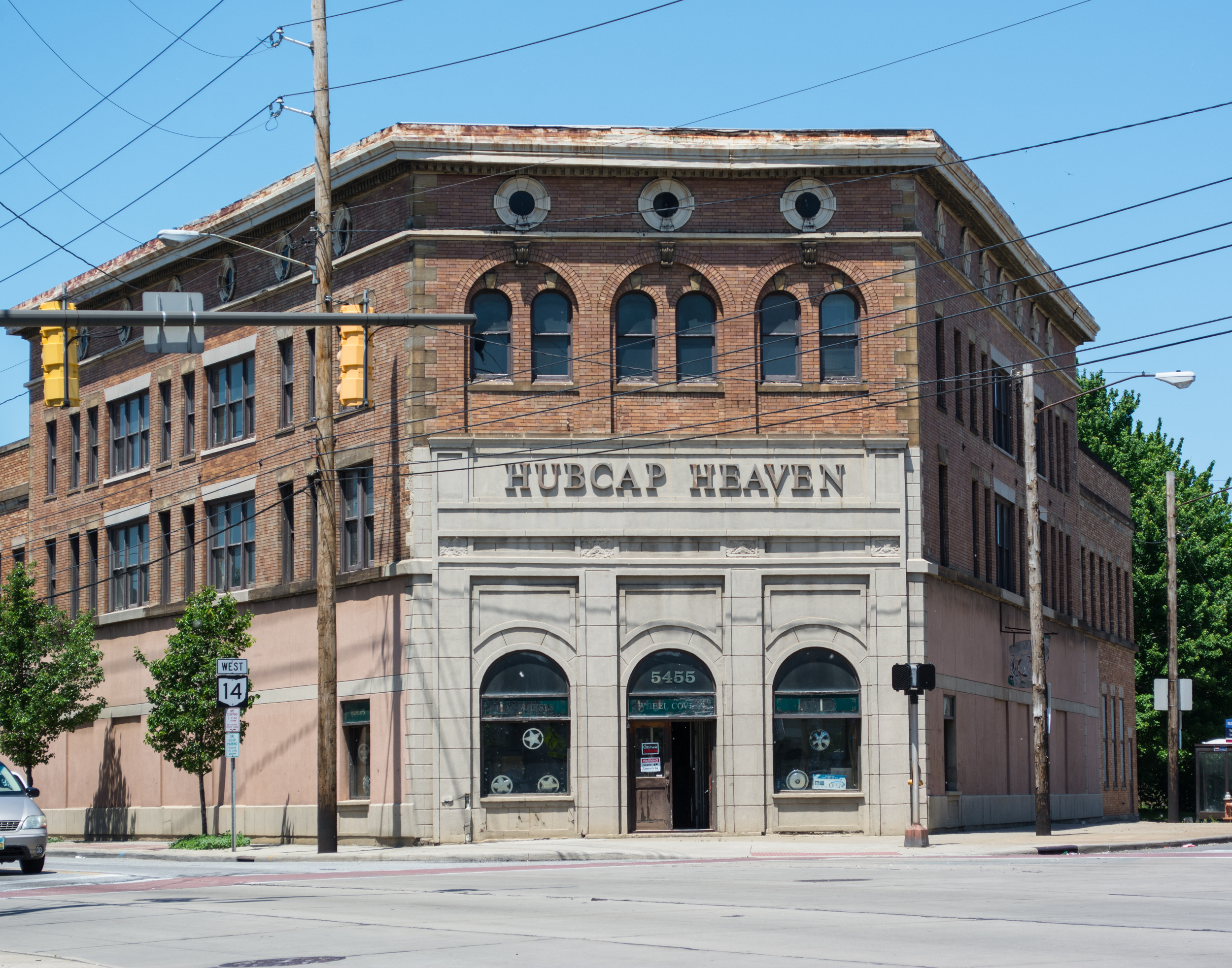 5455 E. 55th Street in Cleveland, Ohio, in the United States. The building is a contributing property to the Broadway Avenue Historic District, which was added to the National Register of Historic Places in 1988. The mixed-use building was the original headquarters of the Broadway Bank, which served the city's Czech community.